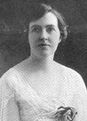 A white woman wearing a white lacy dress with a low scooped neck; her hair is dressed off her neck and with a side part.